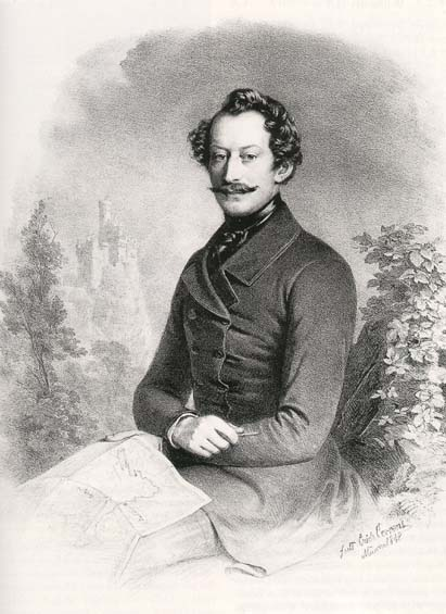 Wilhelm, Duke of Urach